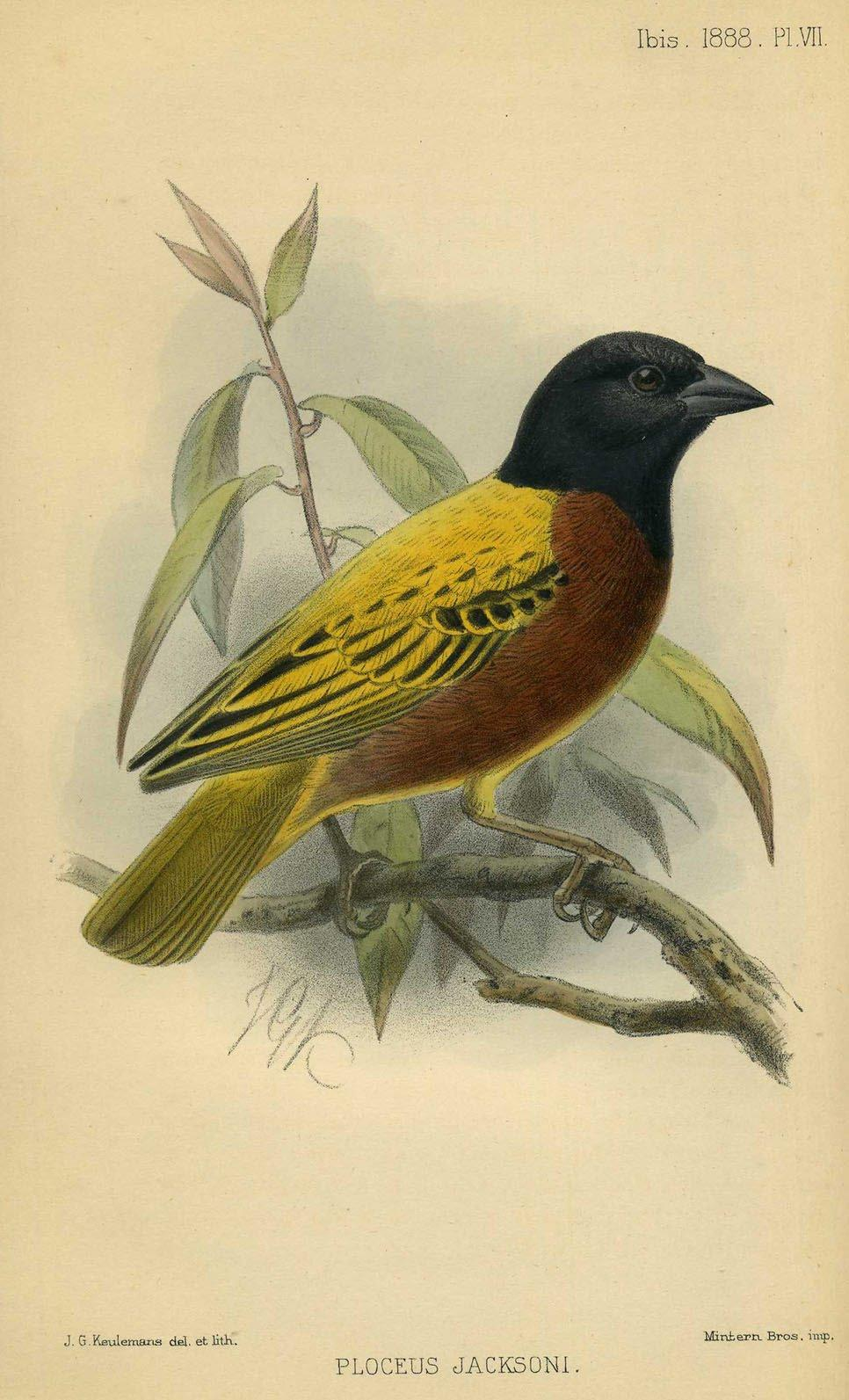 An illustration of Ploceus jacksoni